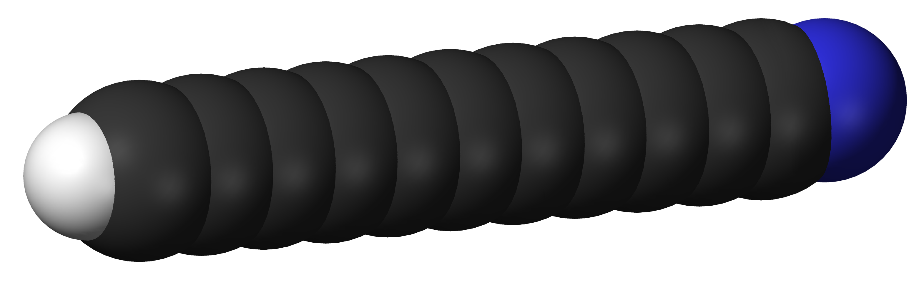 Space-filling model of the cyanopentaacetylene molecule.